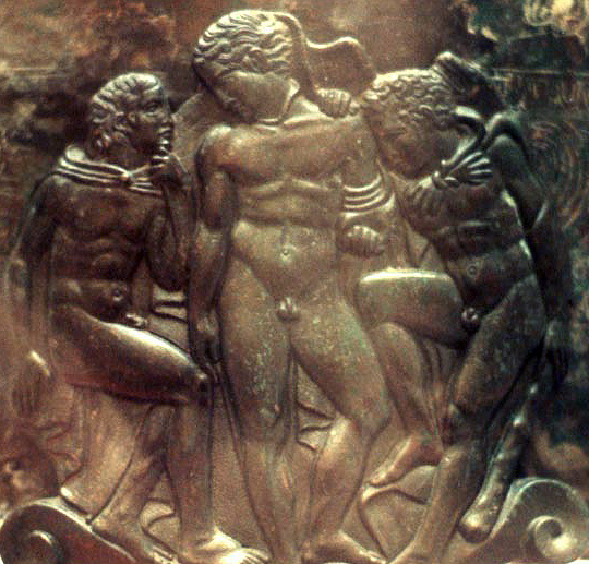 Heracles (r.), Eros (c.) and Iolaus (l.). Foot of the so-called “Cista Ficoroni”, Etruscan bronze casting ritual vessel, 4th c. BCE. Villa Giulia, Rome.